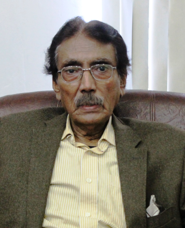 Photo of Bangladeshi painter Syed Jahangir, Dhaka, 2016